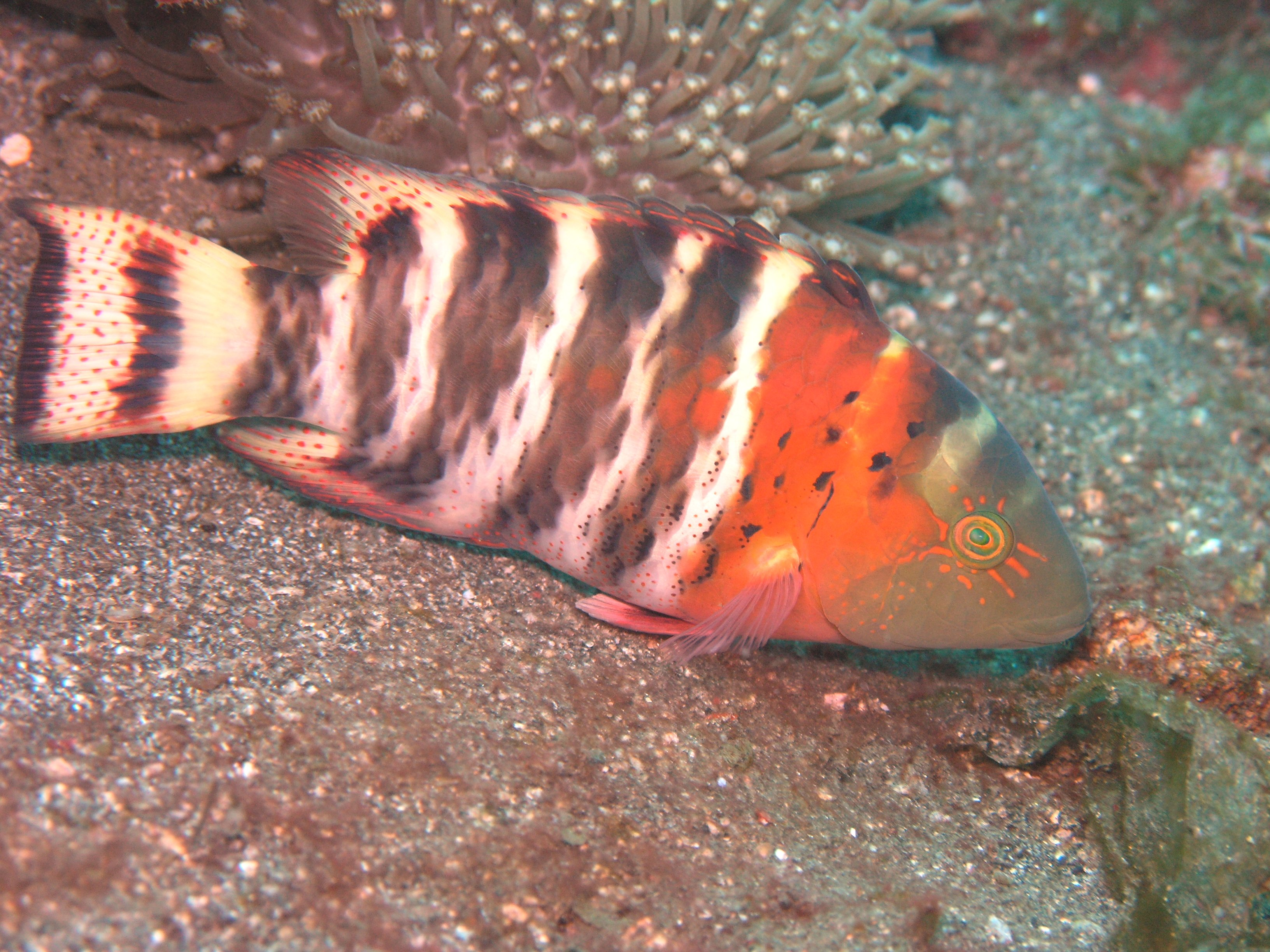 Image of a redbreast wrasse. Cheilinus fasciatus taken in the Lembeh Straights, North Sulawesi, Indonesia.